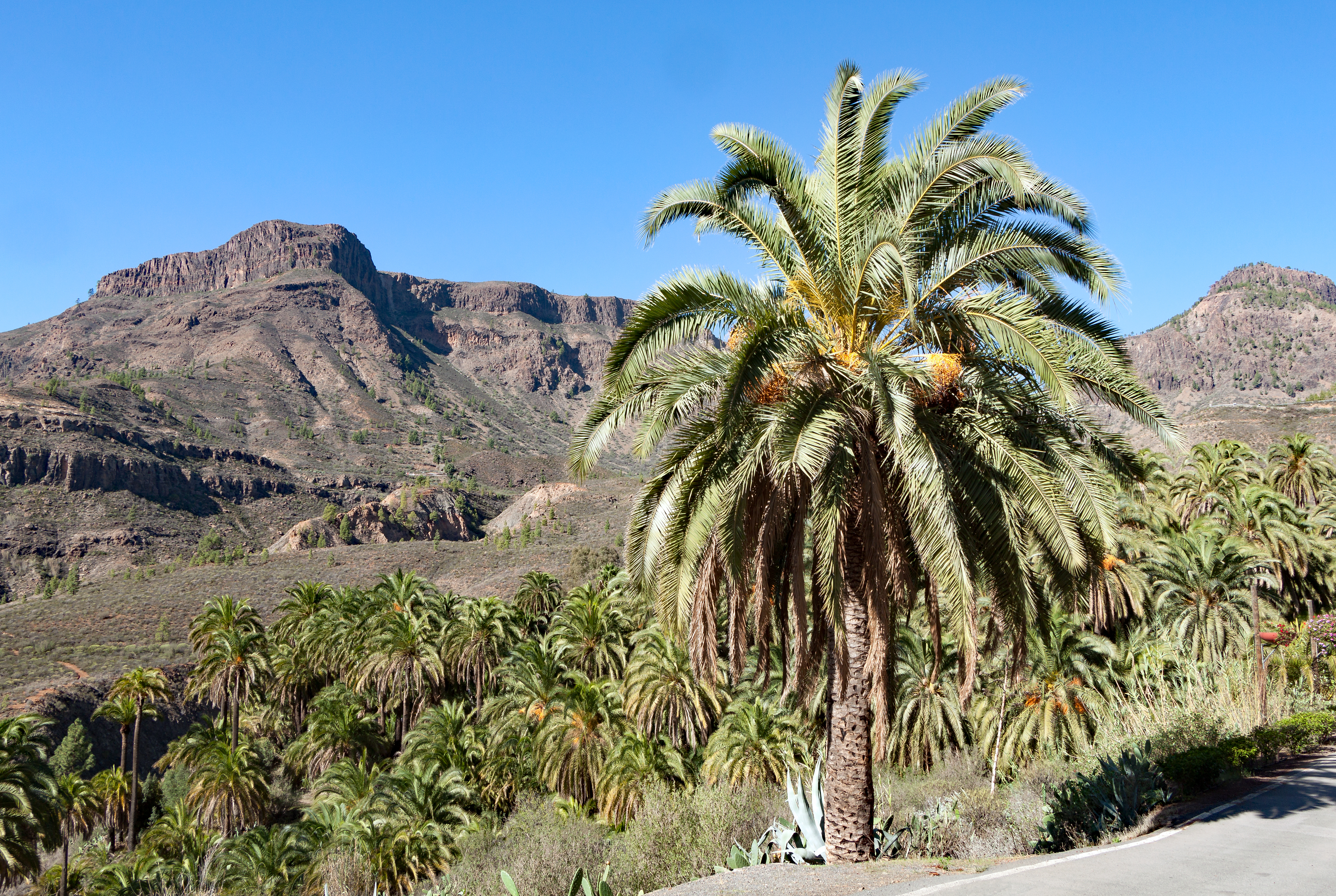 Phoenix canariensis Chabaud (1882), nom. cons. prop., Canary Island Date Palm; Eco Finca Molino de Agua, Fataga, Gran Canaria, Canary Islands, Spain.